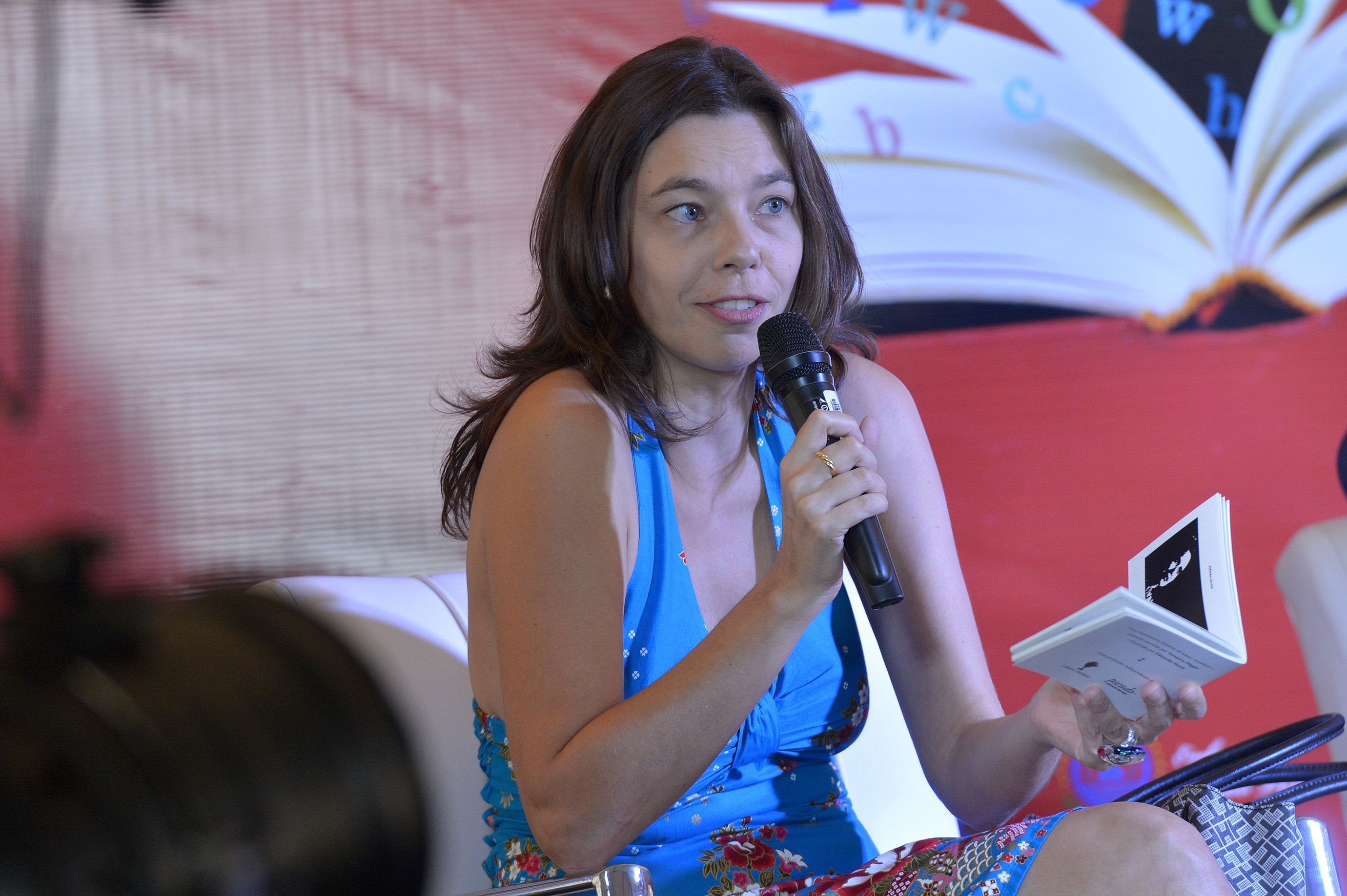 Brazilian writer Veronica Stigger. Photo by Agência Brasil published under a CC-BY-3.0 license